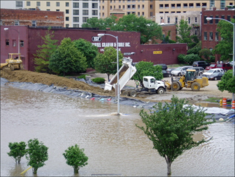 View of Davenport, Iowa, mid June 2008, showing erection of temporary levee during the Flood of 08